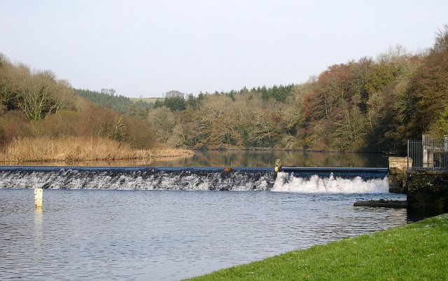 Lopwell Dam. The purpose of this dam is less to hold a great deal of water behind it and more to stop salty tidal water coming up stream. This makes the river water available to be extracted for the public water supply.